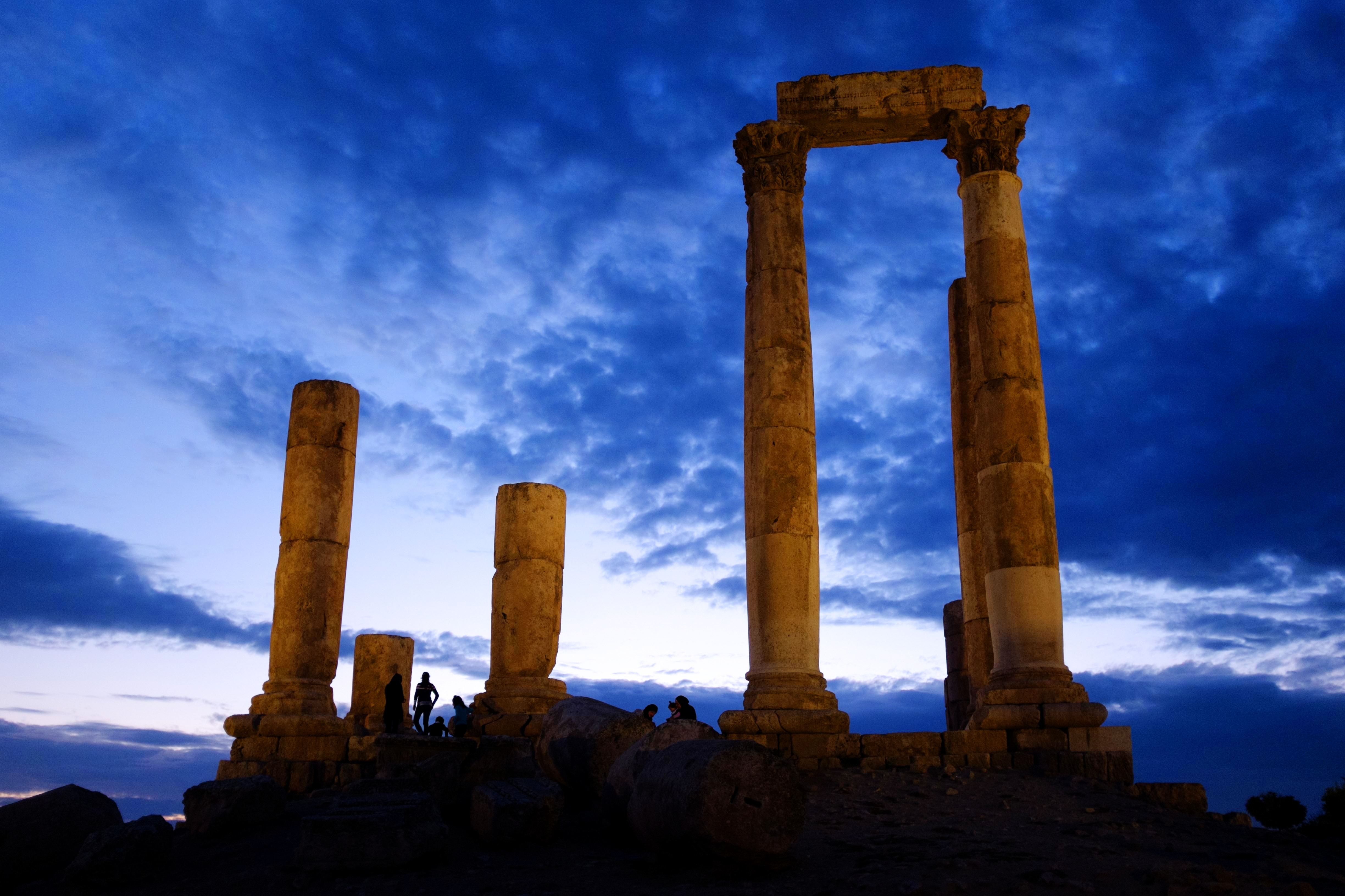 Those stones tell a lot of forbidden stories